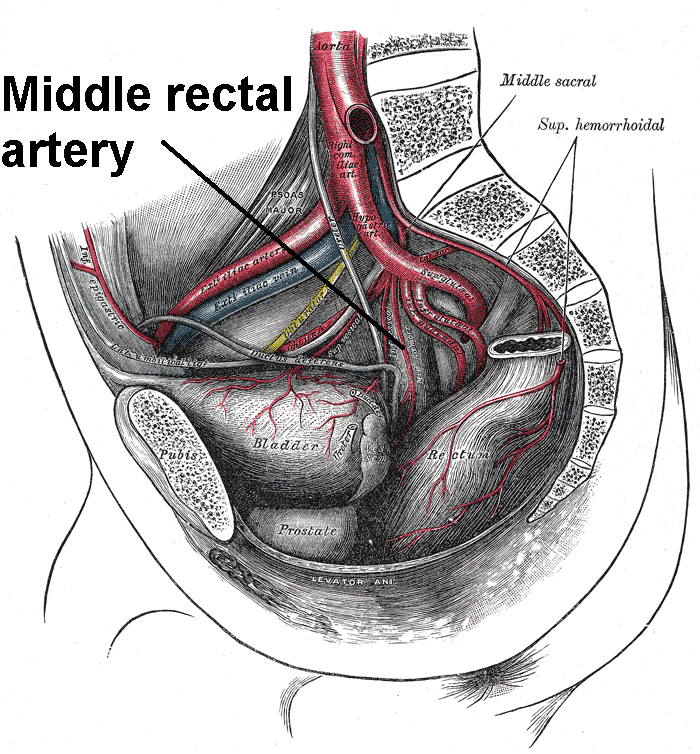 Application of Image:Gray539.png Middle rectal artery